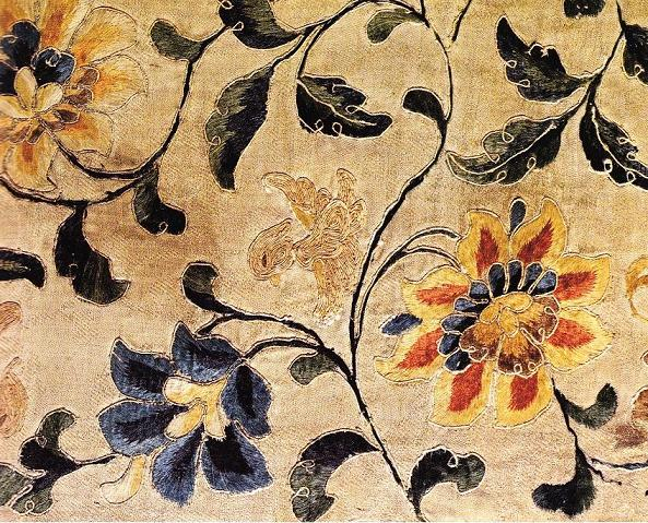 Detail of embroidered panel with a small duck in the middle. From Mogao cave 17, Tang Dynasty.